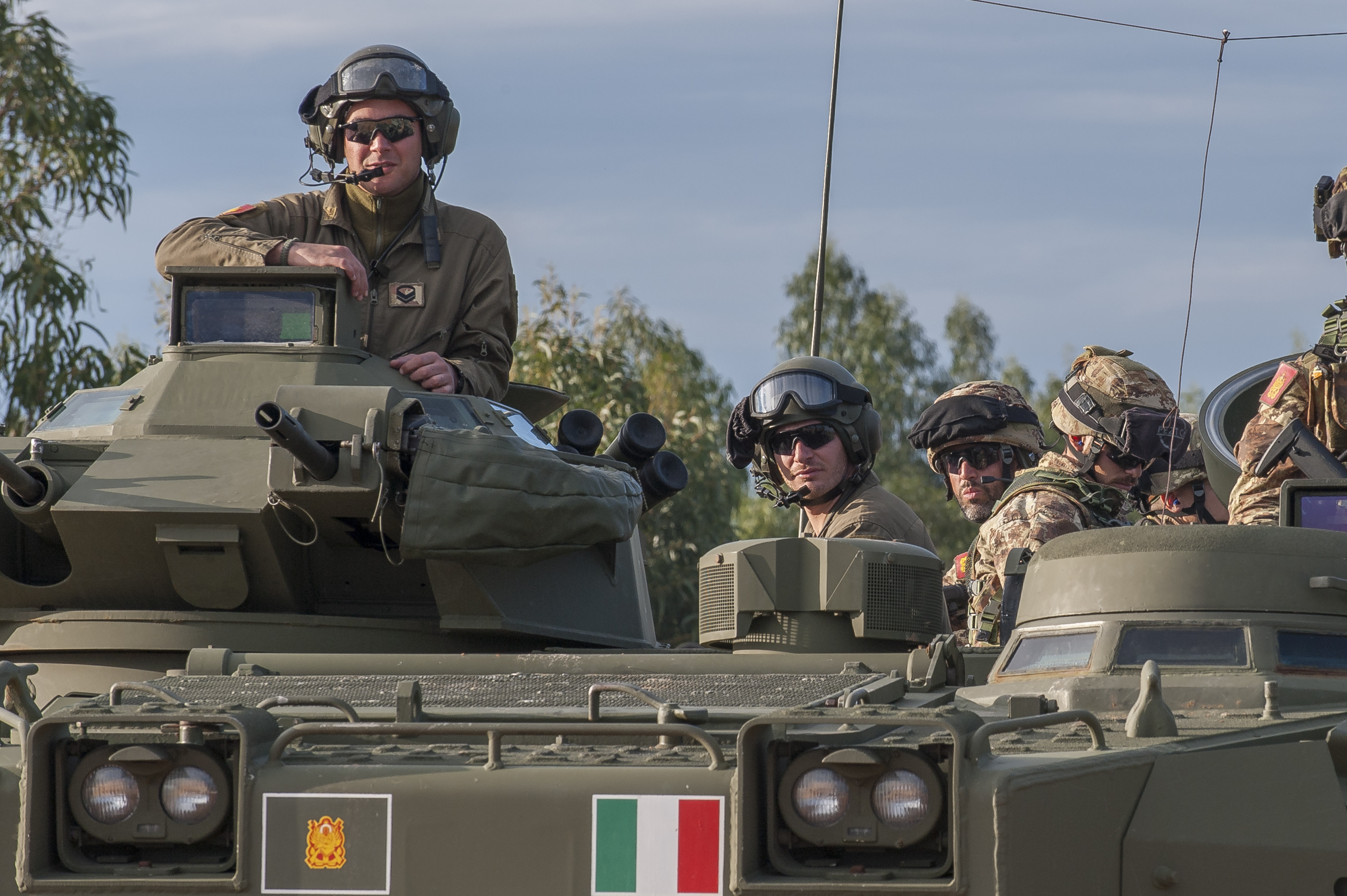 Lagunari italian infantry ready to conduct their assault in Santa Margarida, Portugal, during JOINTEX 15 as part of NATO’s exercise TRIDENT JUNCTURE 15 on October 21, 2015 Photo: Sgt Sebastien Frechette, PA Technician VL06-376-21